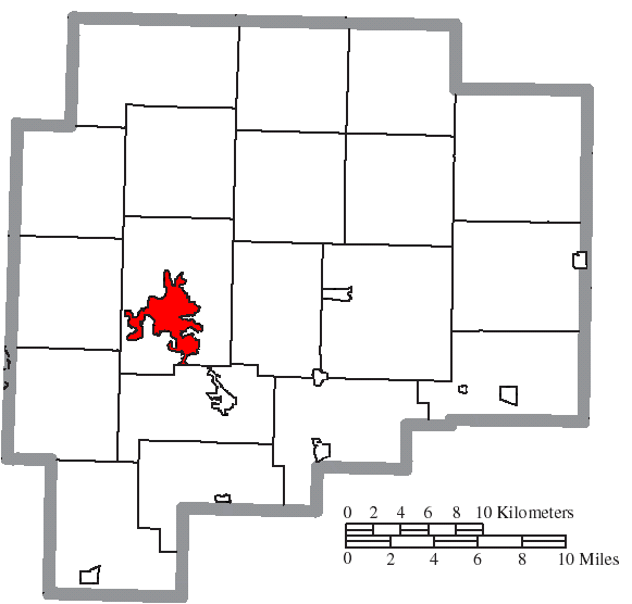 Map of the municipal and township boundaries of Guernsey County, Ohio, United States, as of the 2000 census, with the location of the city of Cambridge highlighted. Township borders are shown only in unincorporated areas in order to differentiate incorporated and unincorporated areas more clearly.